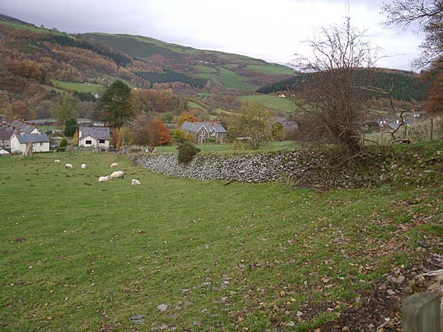 Glyndyfrdwy incline. The embankment of the incline plane for the Deeside Tramway that brought slate slabs down to Glyndyfrdwy Station.